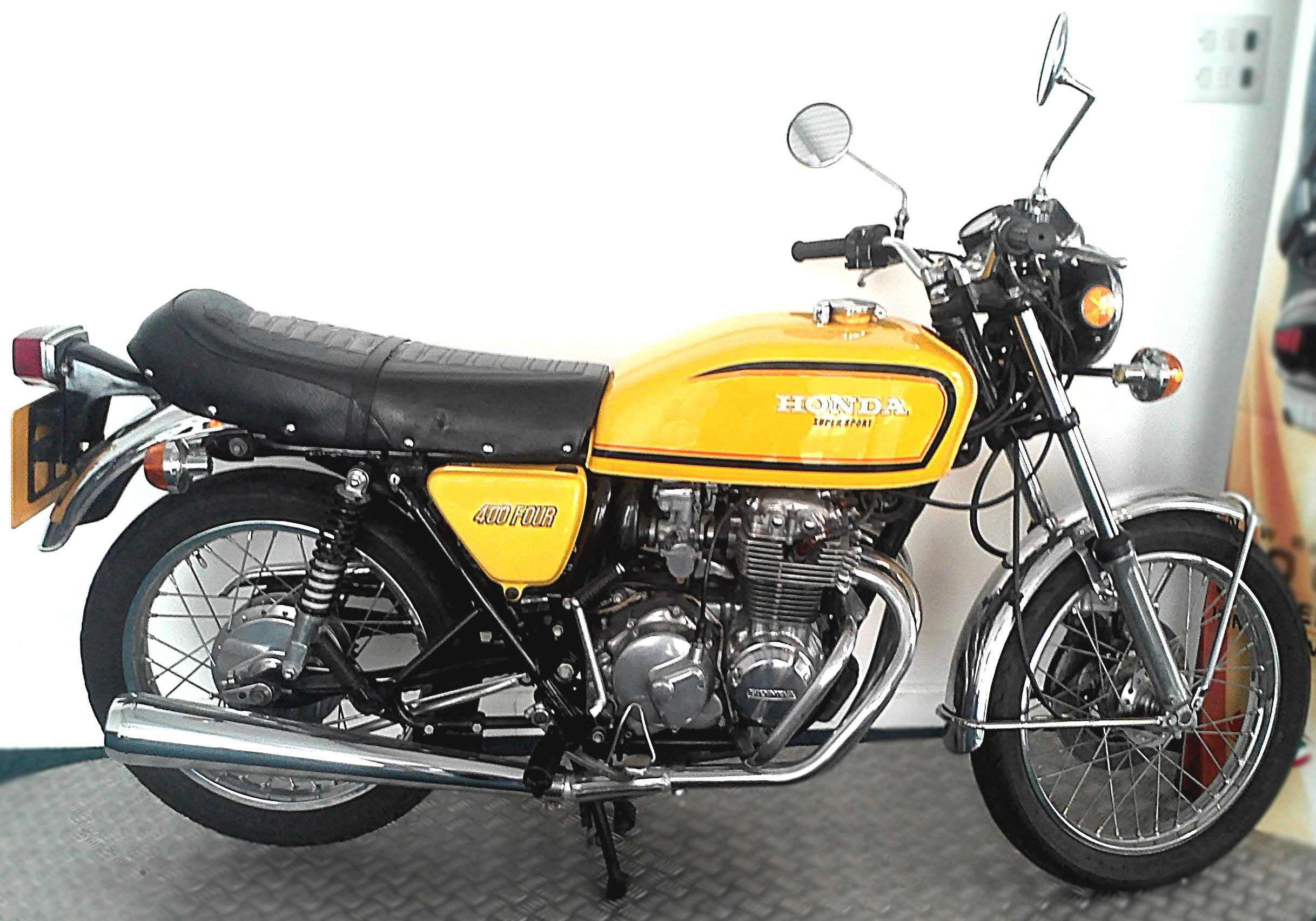 Honda CB400F2 on display at ThunderRoad Motorcycles in Bridgend, South Wales during 2012